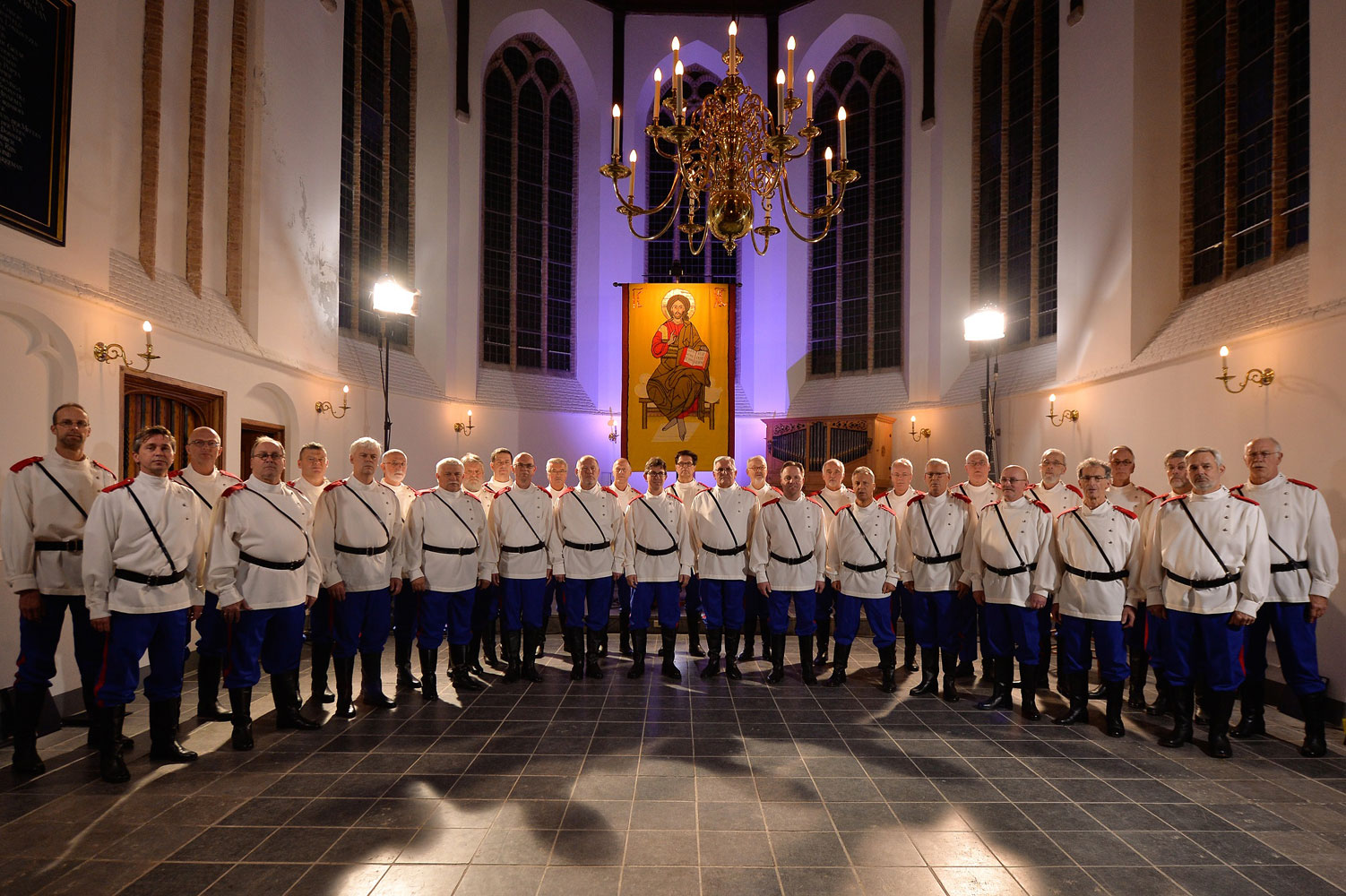 The Ural Cossacks Choir in 2013